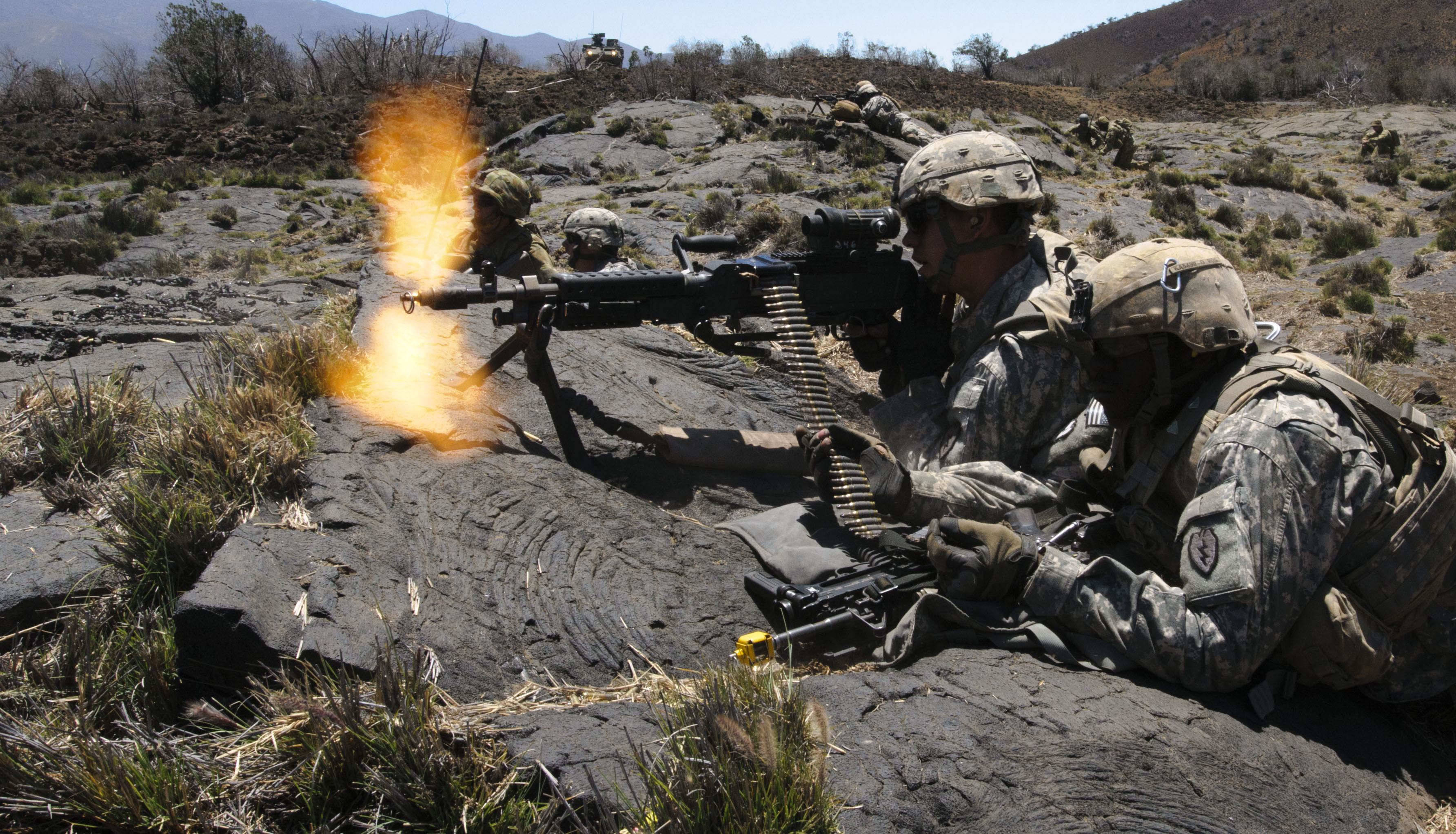 Soldiers from the 1st Battalion, 14th Infantry Regiment, 2nd Brigade Combat Team, 25th Infantry Division, provide suppressive fire on a target during a training exercise at Pohakuloa Training Area on June 6 as part of the Theatre Security Cooperation Program. Blank and Live Fire exercises are a critical part of infantry training, allowing Soldiers to practice infantry tactics in realistic scenarios.